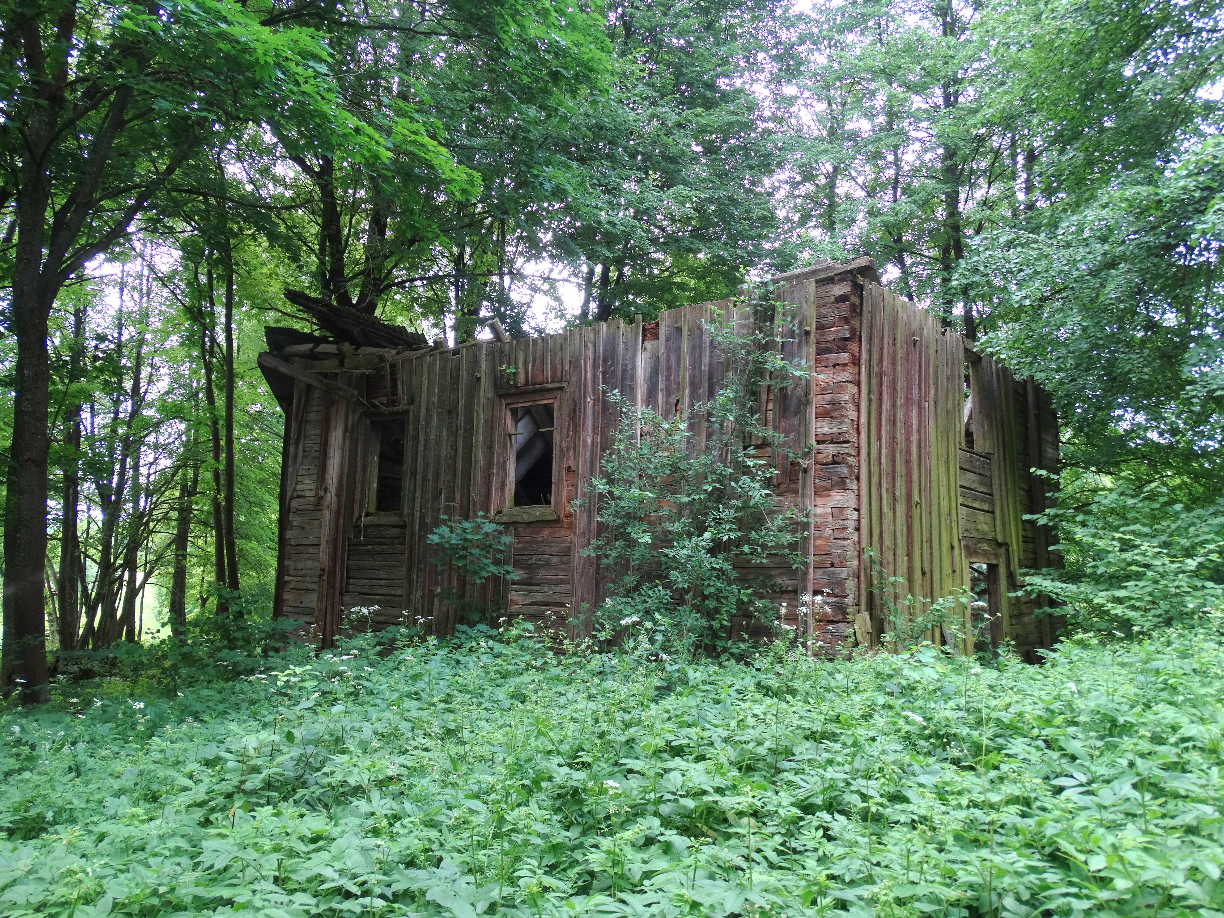 Chapel (ruins), Pociūnai, Širvintos District, Lithuania